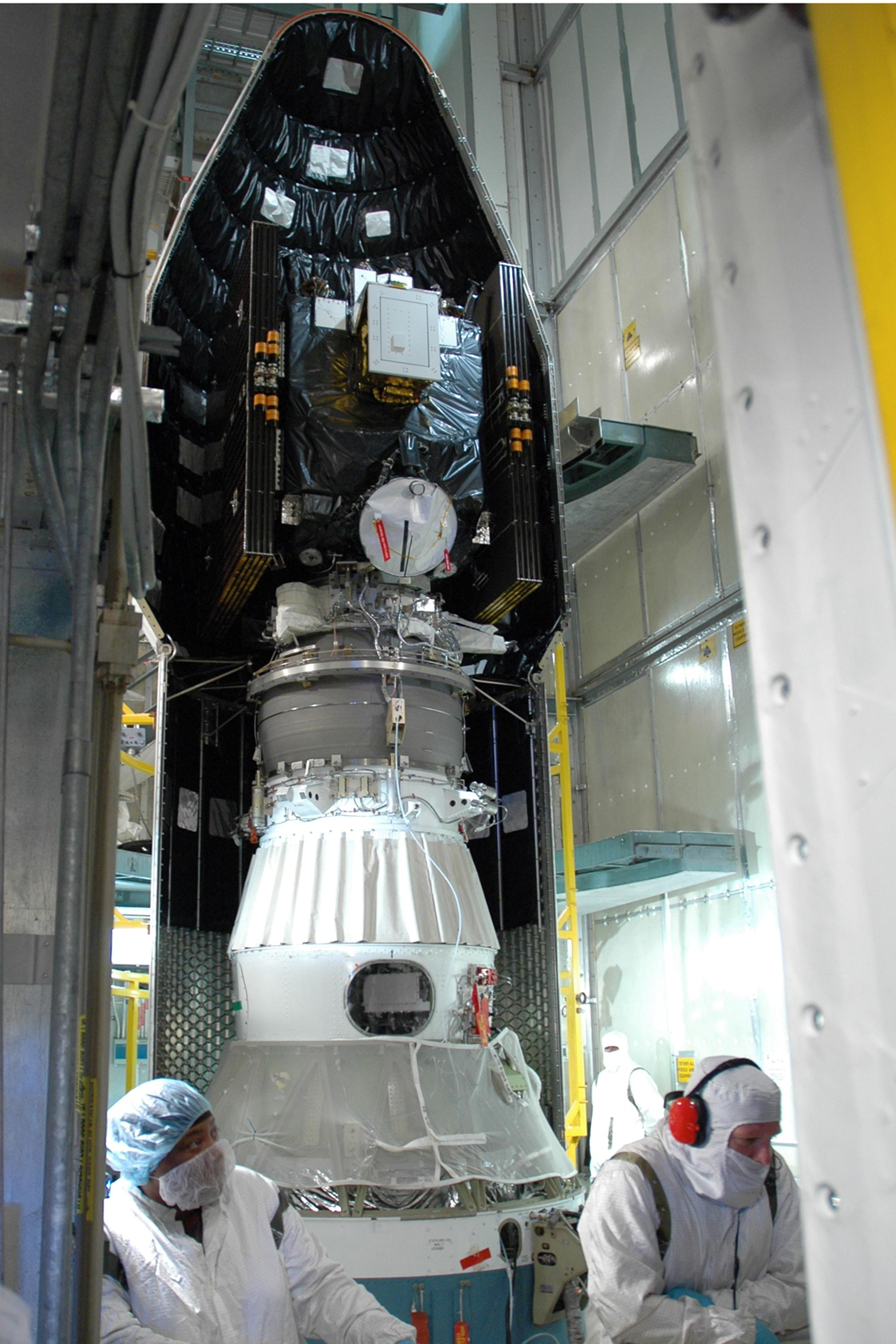 Seacond encapsulation: Dawn, with the first half of the payload fairing in backgrund, on it's Delta II 7925 Heavy third stage.